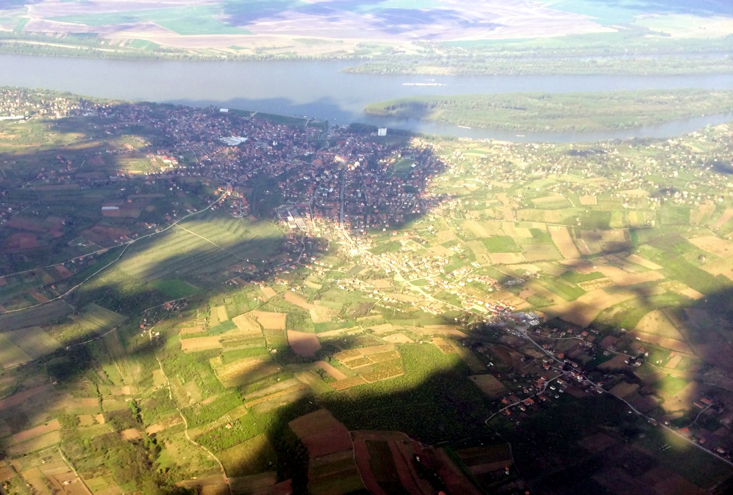 Aerial view over Donau with settlement Grocanska Ada, and island Grocka, in the municipality of Grocka, east of Beograd (Serbia)